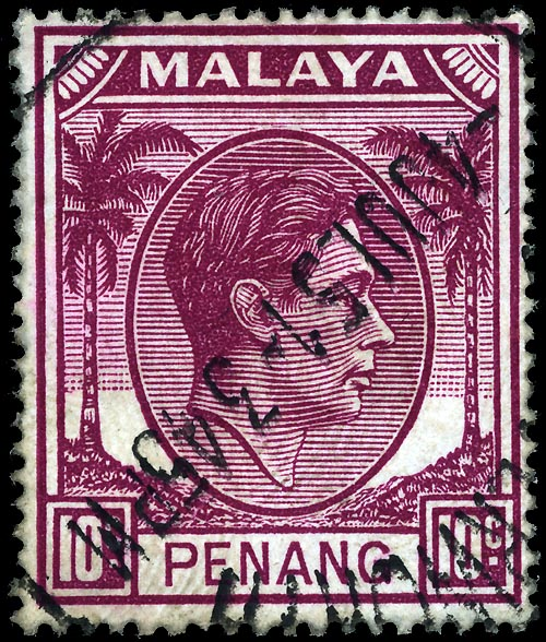 Penang 10c stamp of 1949